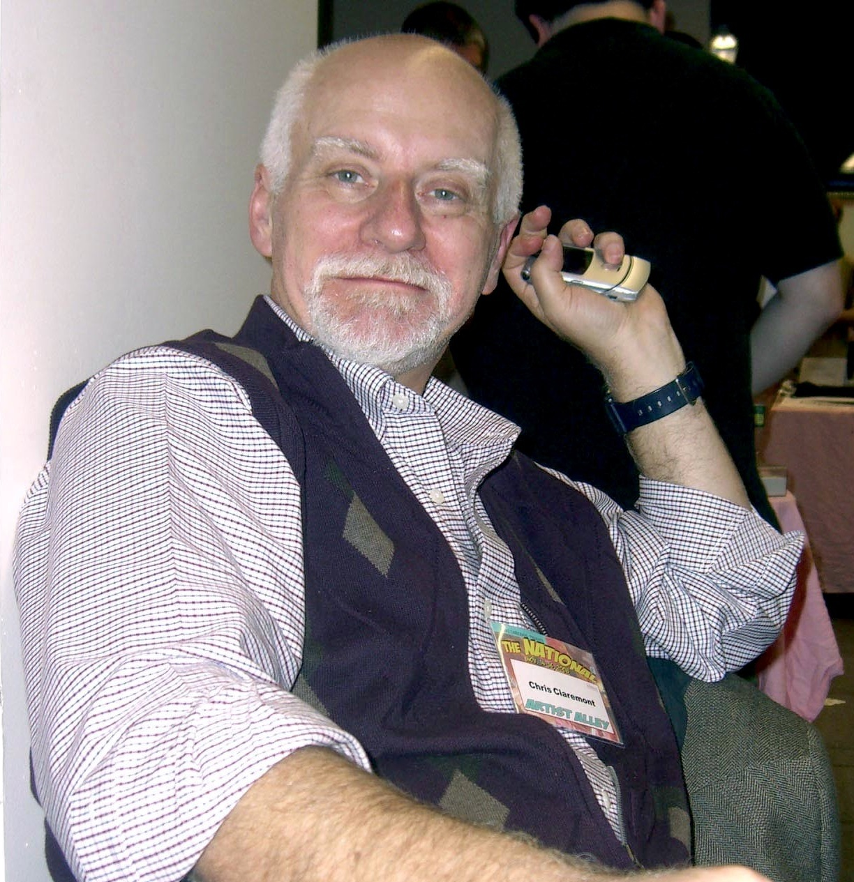 Comic book creator Chris Claremont at the November 2008 Big Apple Convention in Manhattan. This photo was created by Luigi Novi. It is not in the public domain, and use of this file outside of the licensing terms is a copyright violation.